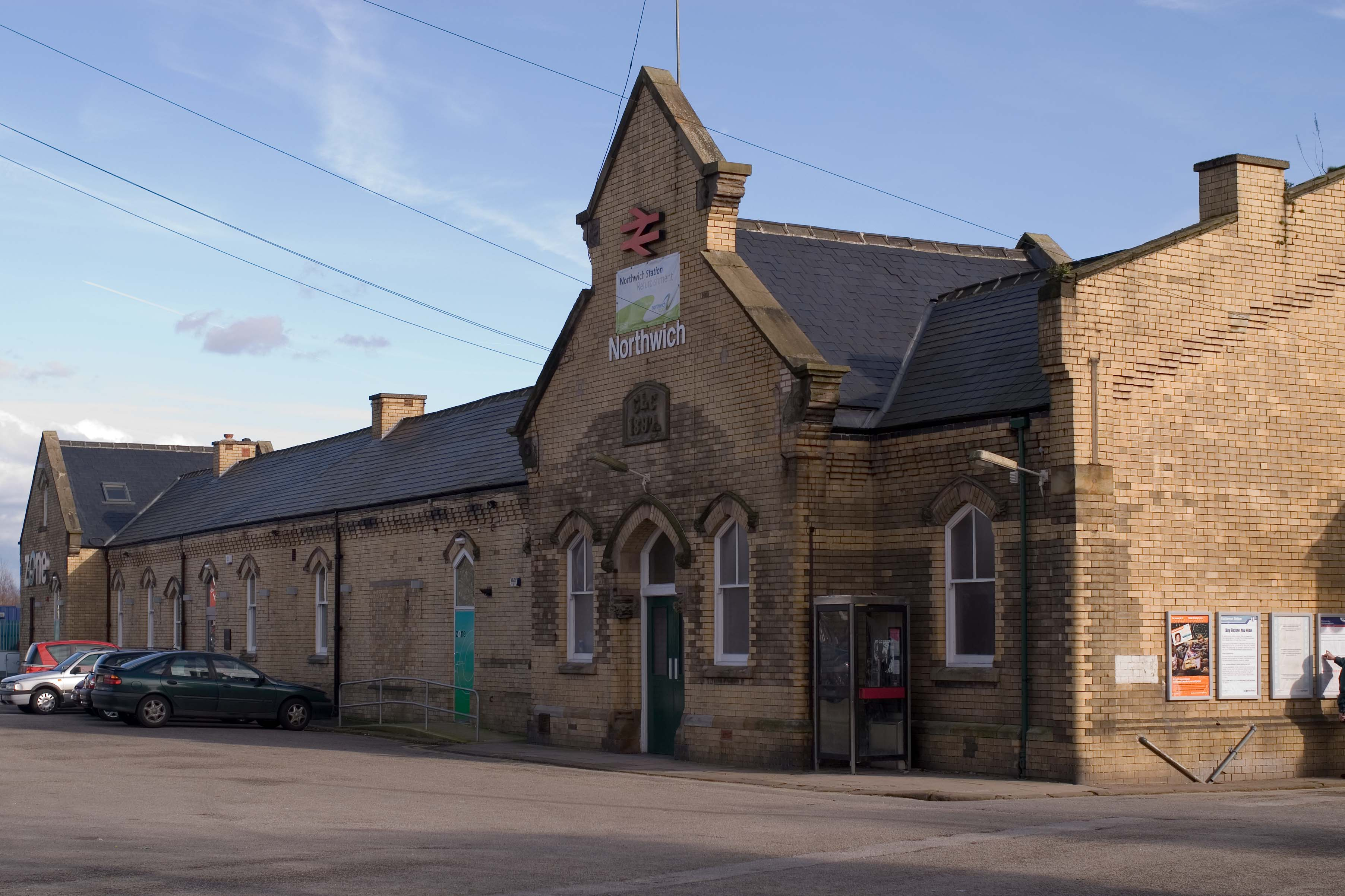 Photograph of Northwich Railway station. Photo taken by Self. 2007